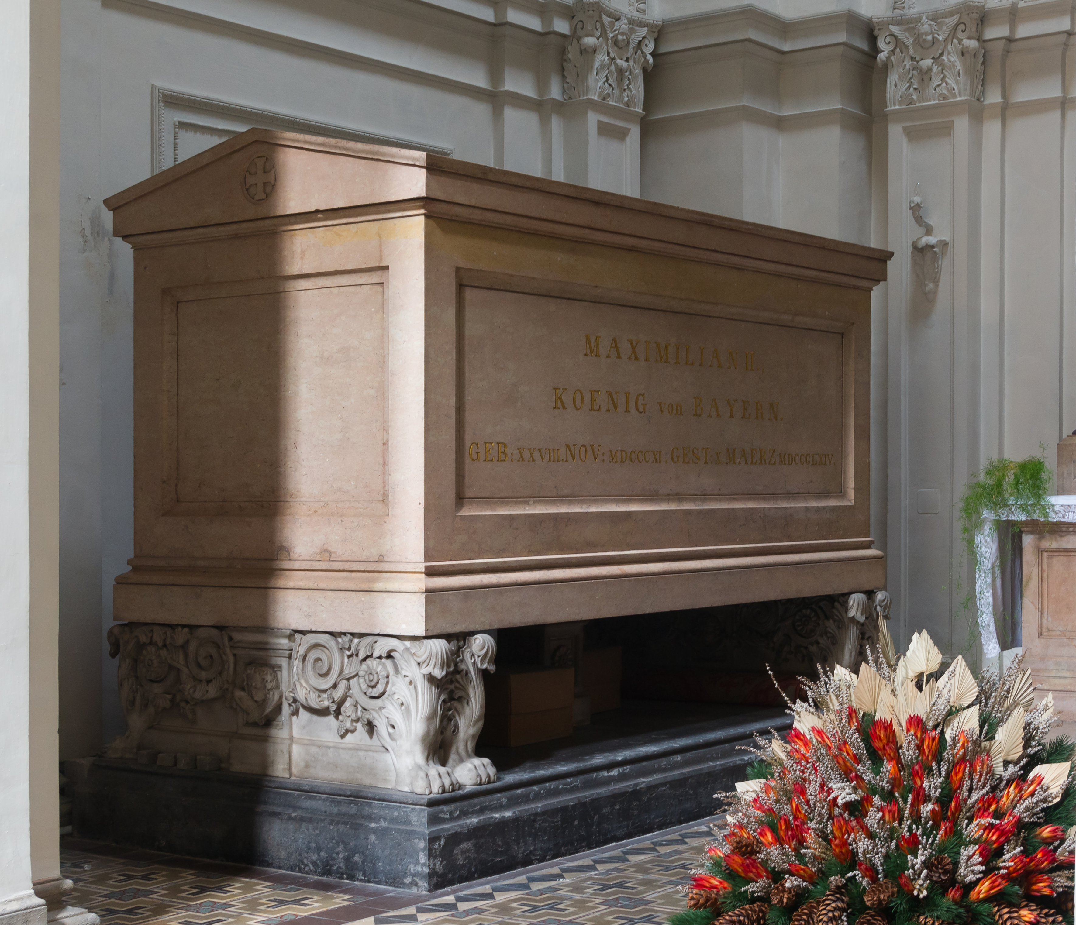 Tomb of Maximilian II, King of Bavaria, Theatinerkirche, Munich, Bavaria, Germany.